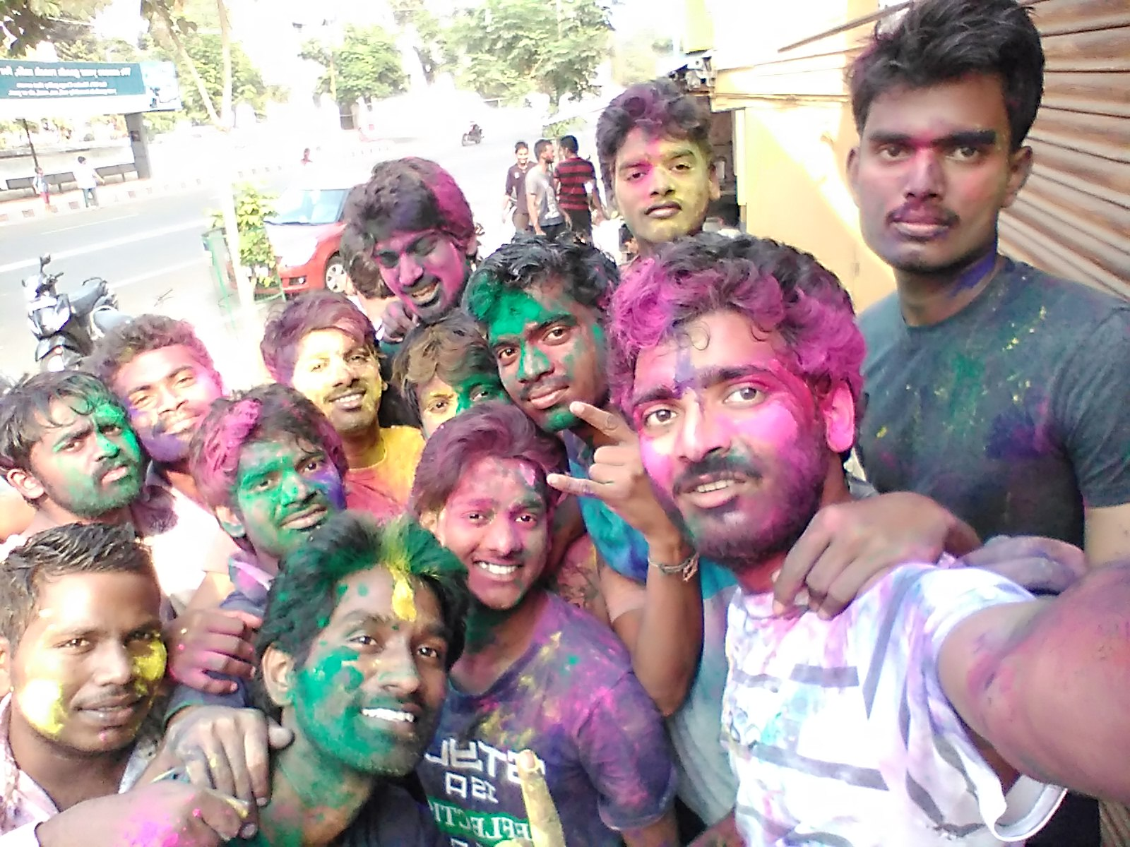 selfie of holi celebration